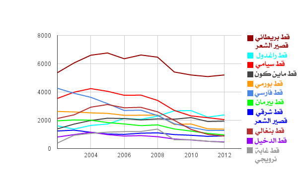 Governing Council of Cat Fancy breed registration data between 2002 to 2012 for the top 11 breeds of 2012.